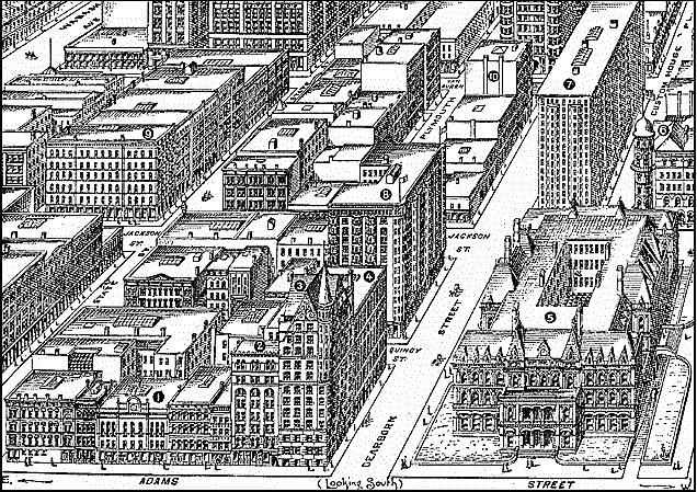 Birds-eye map of Chicago from Adams Street looking South in 1898. Notable buildings include the Monadnock Building (7), the Post Office and Custom House (5), The Union League Club (6), and the Great Northern Hotel (8).